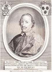 Cardinal Antonio Pignatelli, future pope Innocent XII